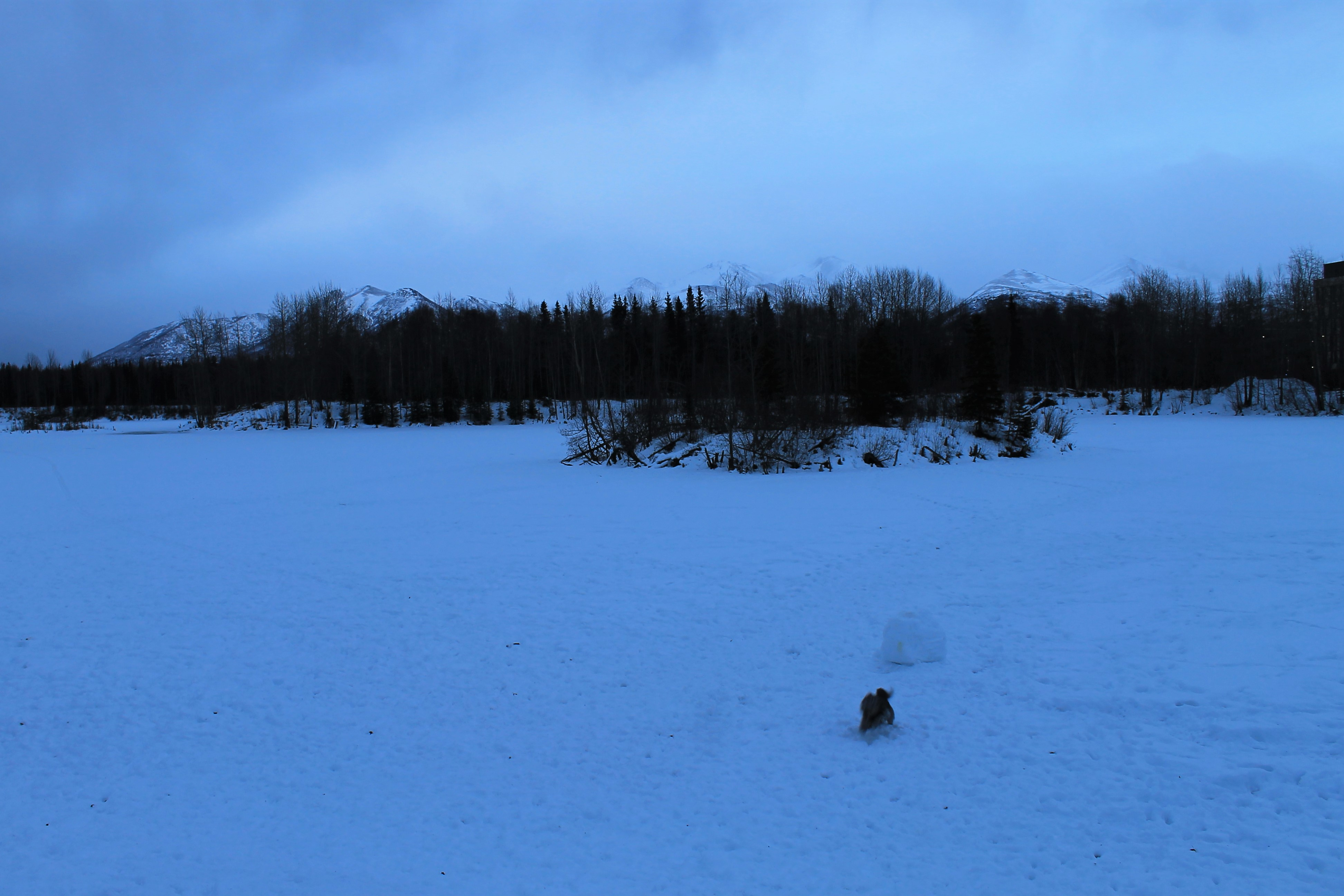 A photo of the University Lake Dog Park on the campus of University of Alaska Anchorage in January 2019.